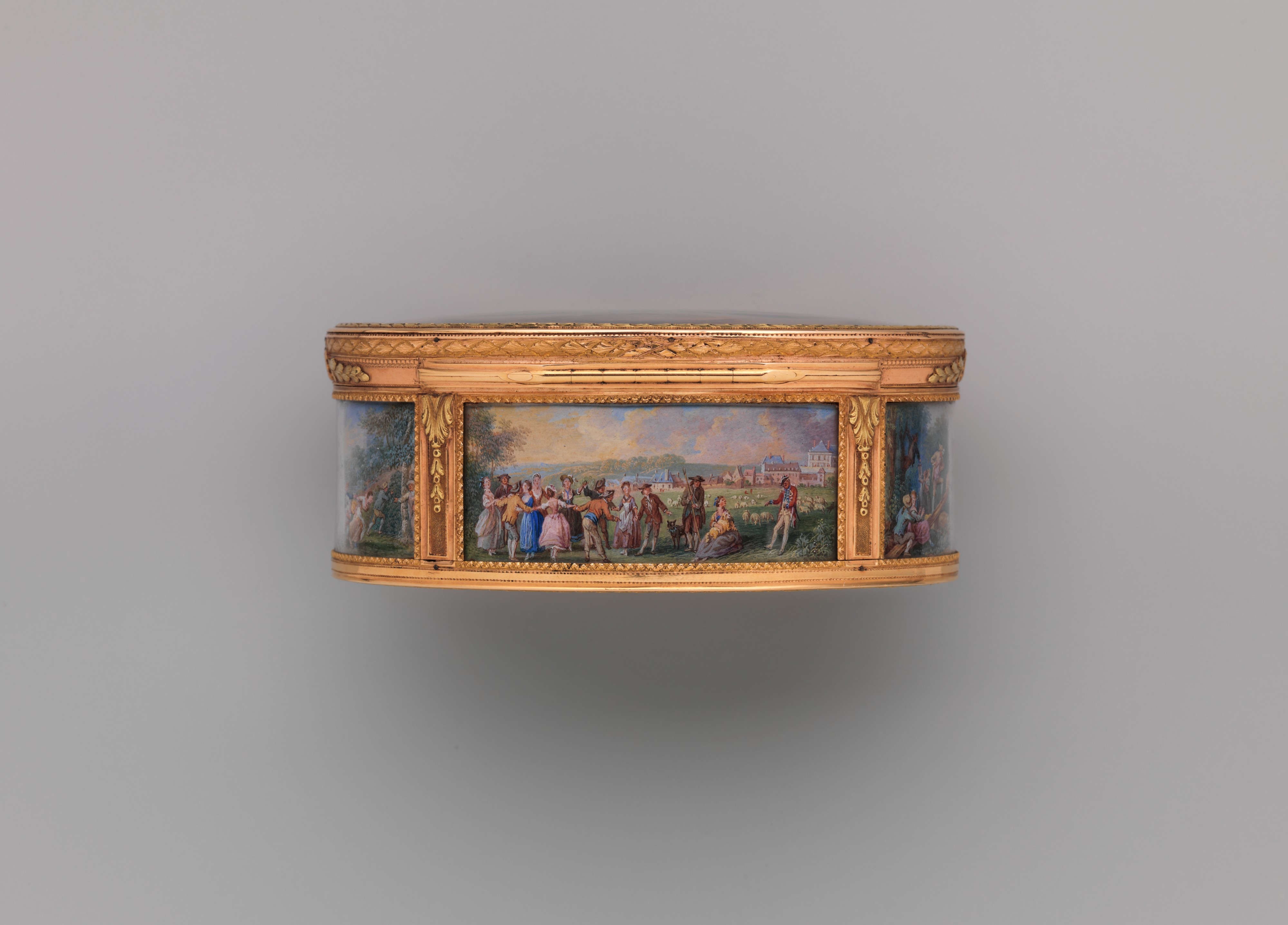 French, Paris; Snuffbox, painting; Metalwork-Gold and Platinum